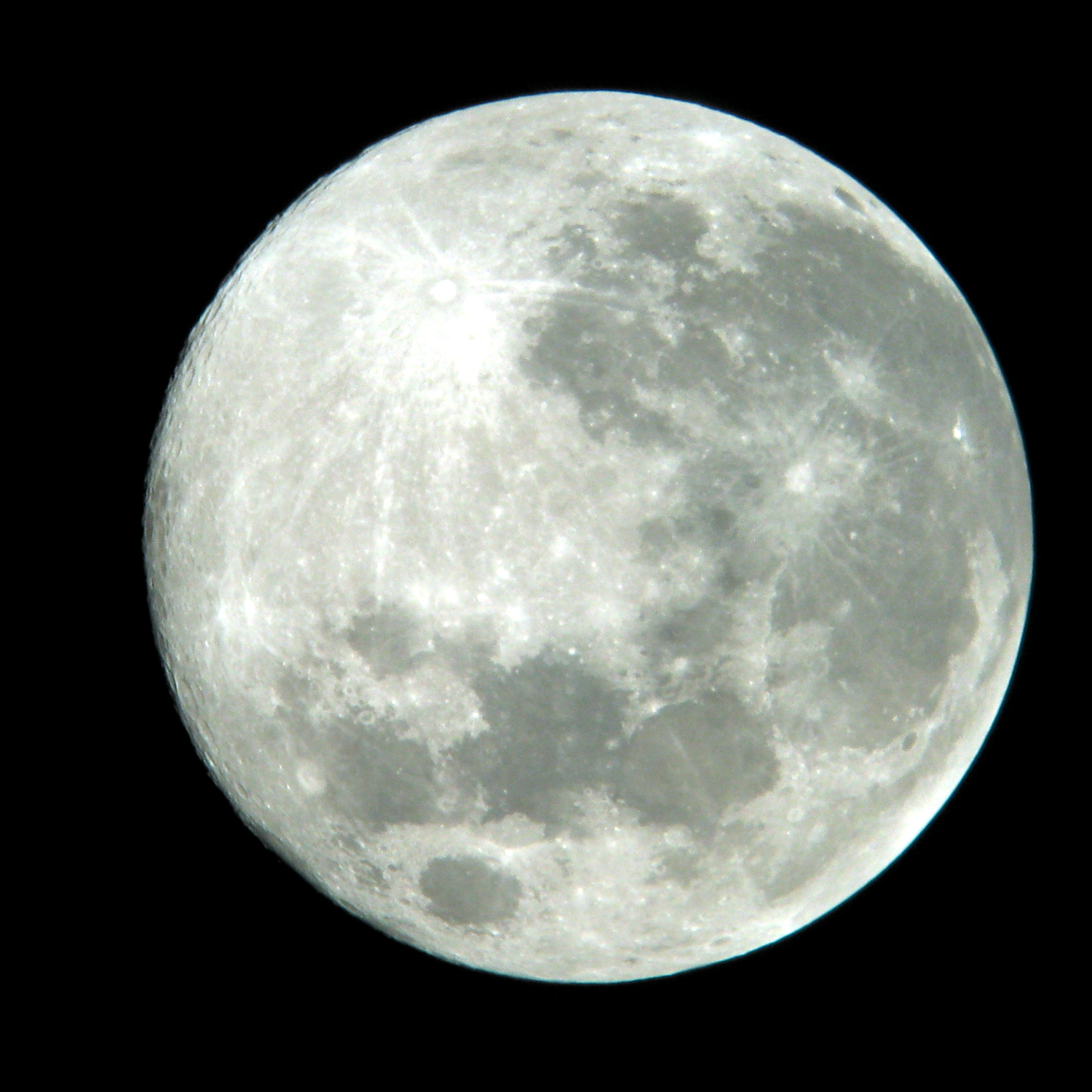 Full moon photo taken on the Blue Moon day using a 200mm telescope during the celebrations held at Campinas' Municial Observatory. This image is the result of a ten photo stacking.